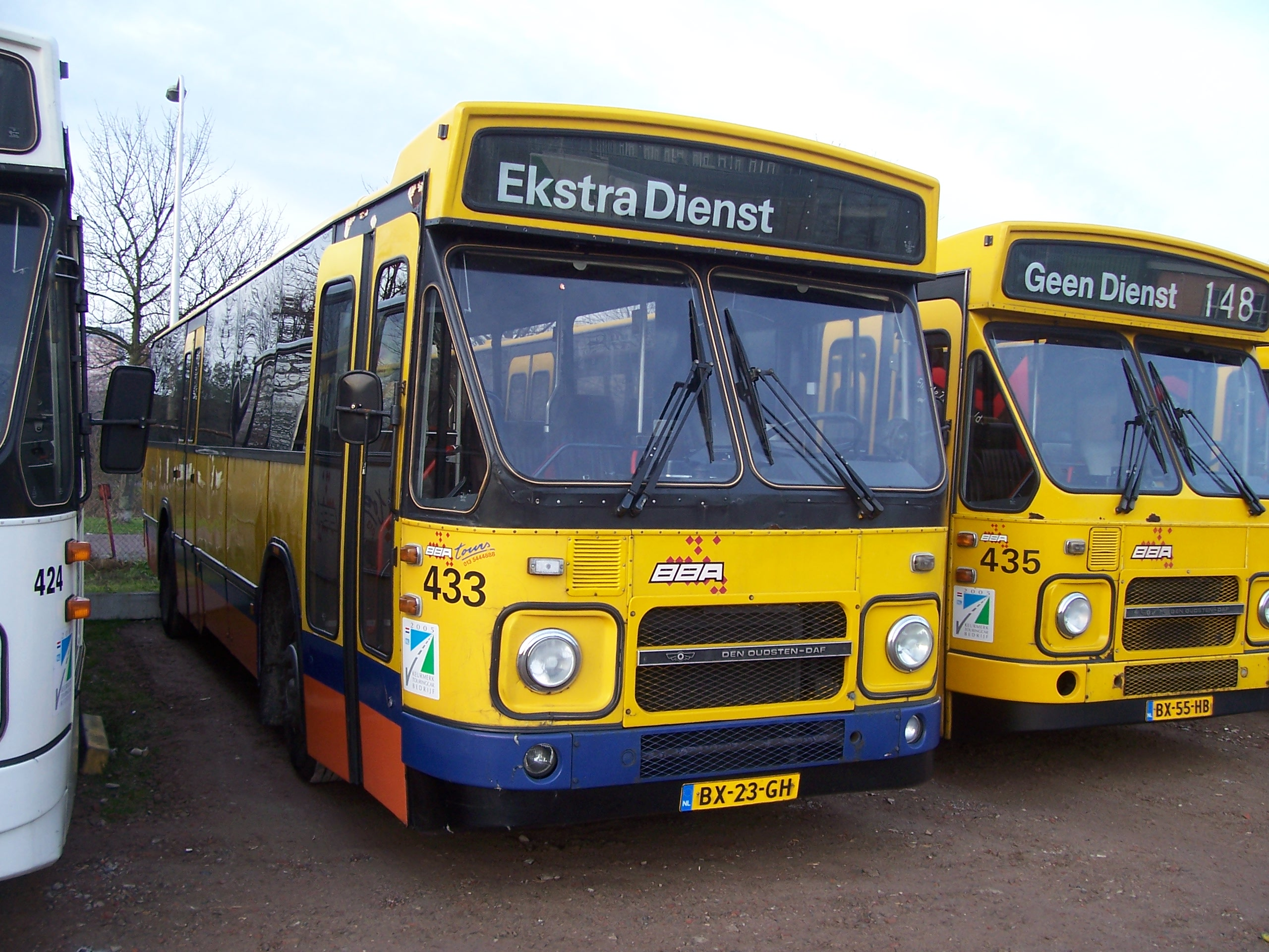 Den Oudsten buses (#433, #435) with DAF MB200 chassis in the Netherlands.